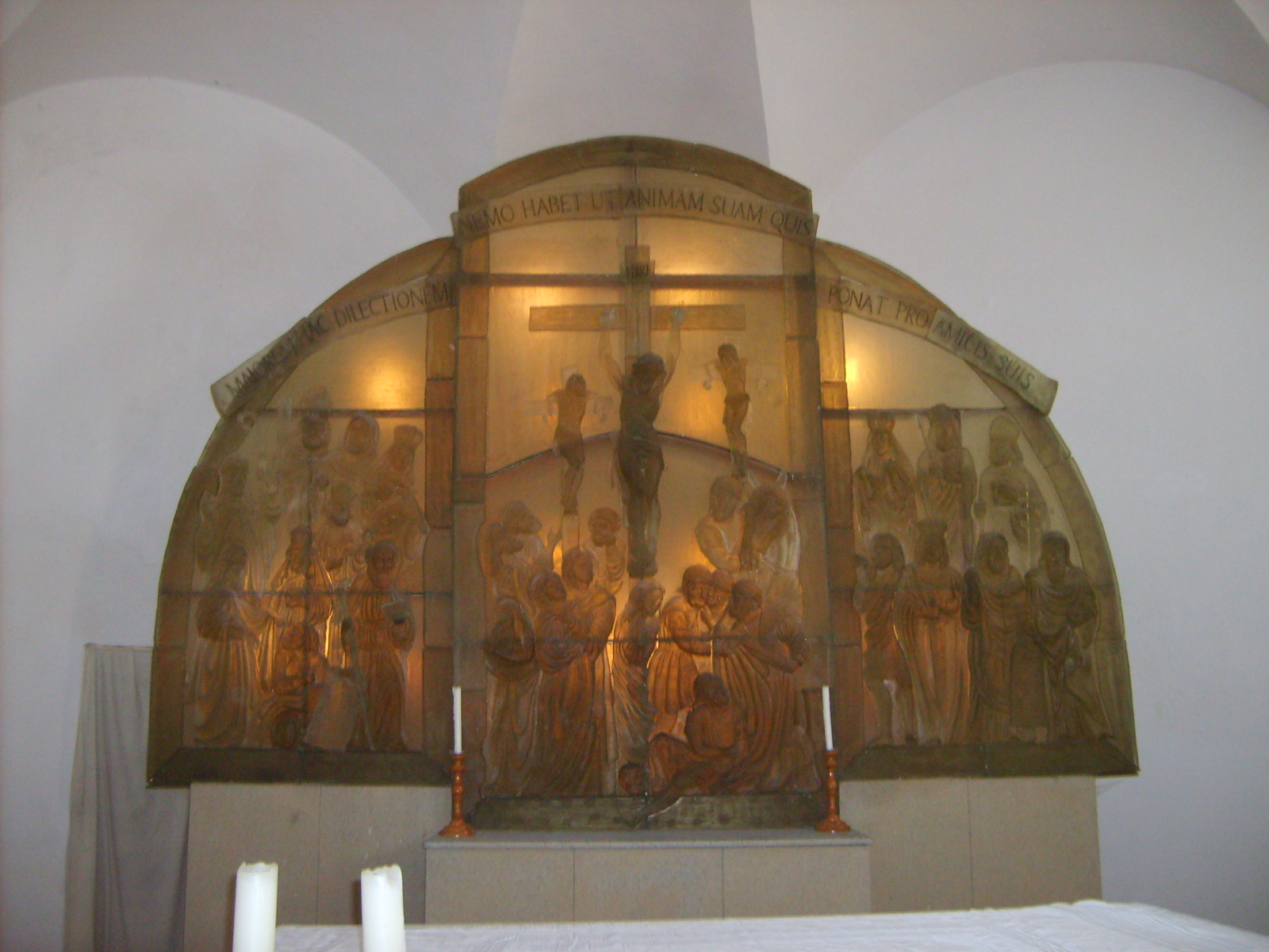 Glass altar in the church of St.Gunther, Dobrá Voda in Bohemian Forest, part of Hartmanice town, Klatovy District, CZ